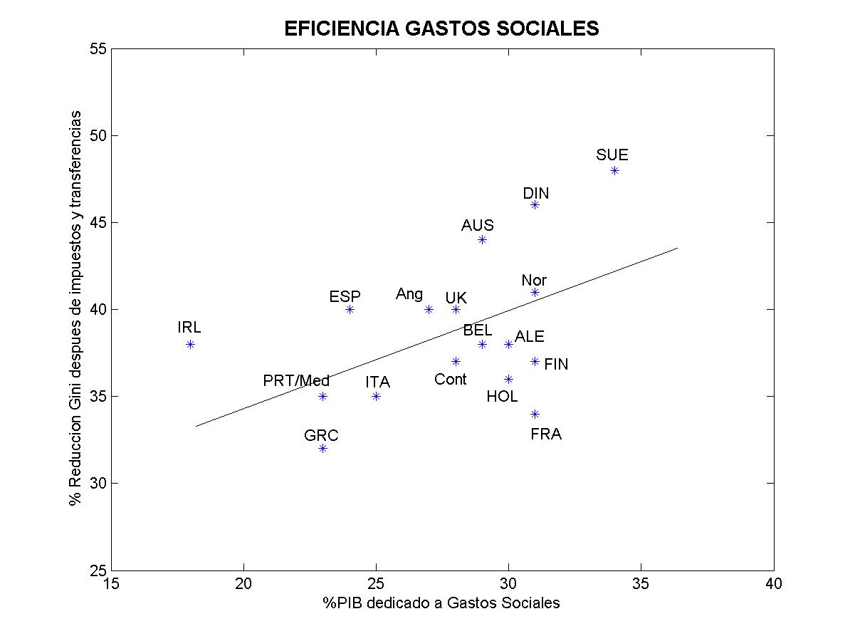 Graph made by Jorditxei describing Efficiency of Social Expenditures in EU